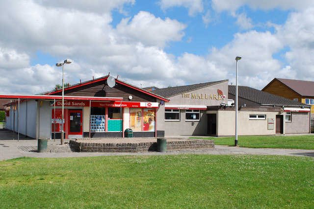 North Muirton shops